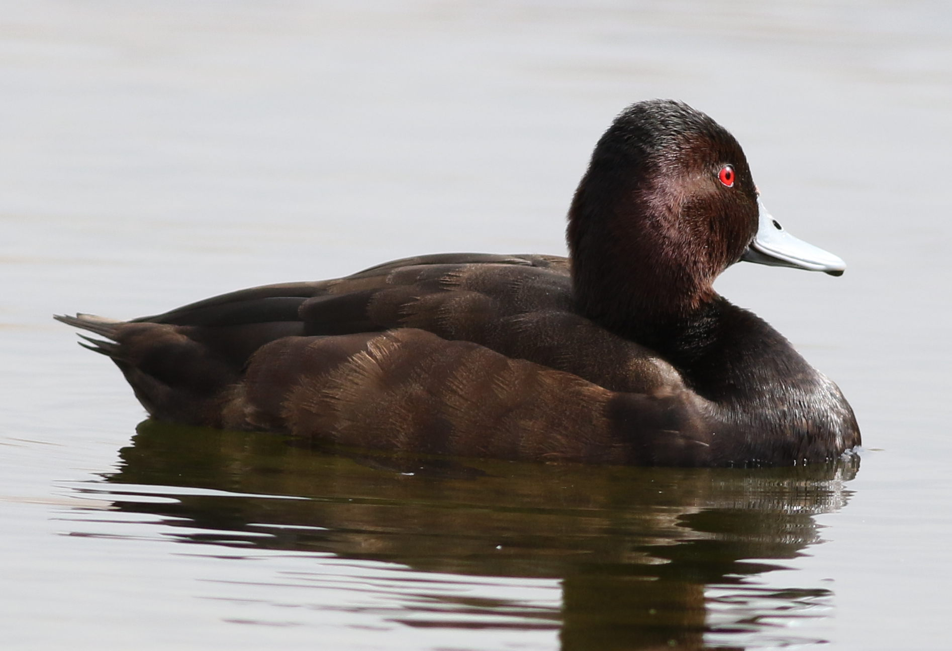 Southern Pochard, Netta erythrophthalma, at Marievale Nature Reserve, Gauteng, South Africa